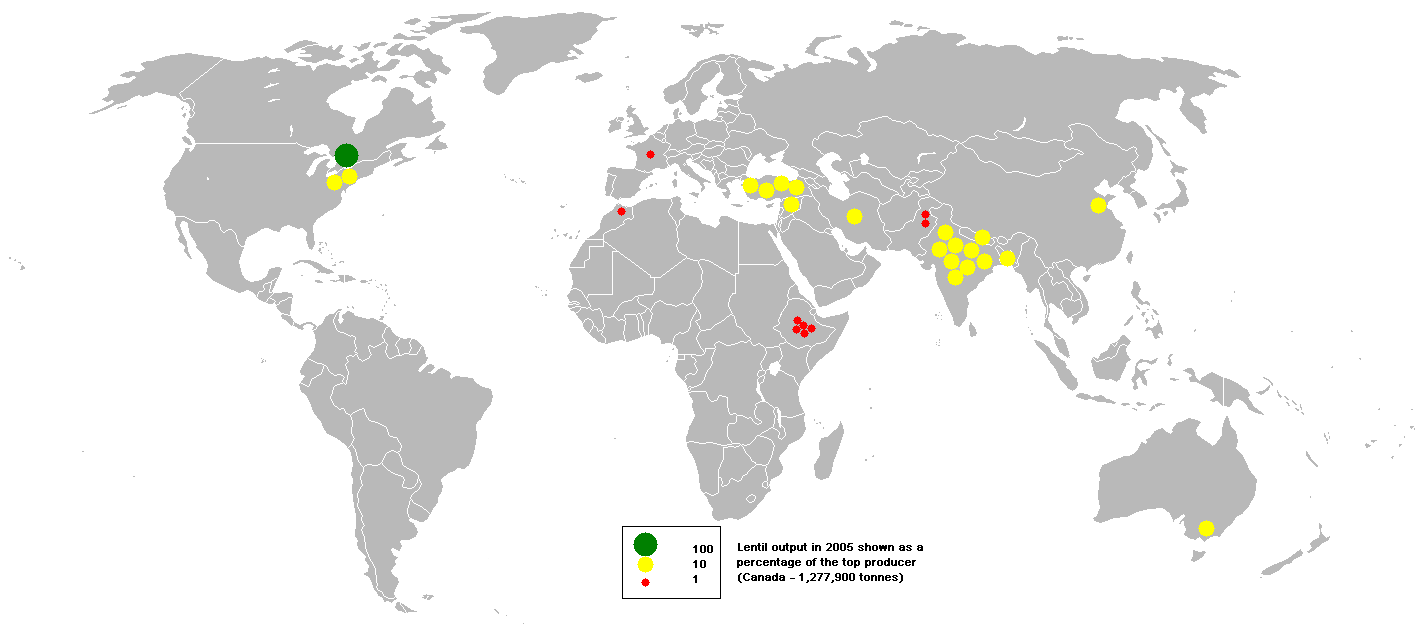 This bubble map shows the global distribution of lentil output in 2005 as a percentage of the top producer (Canada - 1,277,900 tonnes). This map is consistent with incomplete set of data too as long as the top producer is known. It resolves the accessibility issues faced by colour-coded maps that may not be properly rendered in old computer screens. Data was extracted on 9th June 2007 from Based on :Image:BlankMap-World.png The previous Wikipedia page said that most lentils grown in Canada are grown in Saskatchewan, in western Canada. However, the large green dot on the map is on southern Ontario. This is due to the map format, which places the dot over the national capital, rather than over a nation's main lentil growing area.